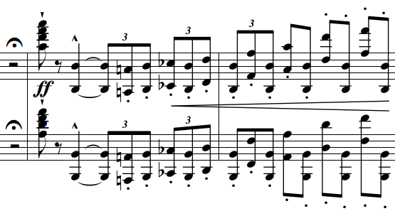 First piano entrance in Piano Concerto No. 1 in E-flat major finished by Franz Liszt in 1849.